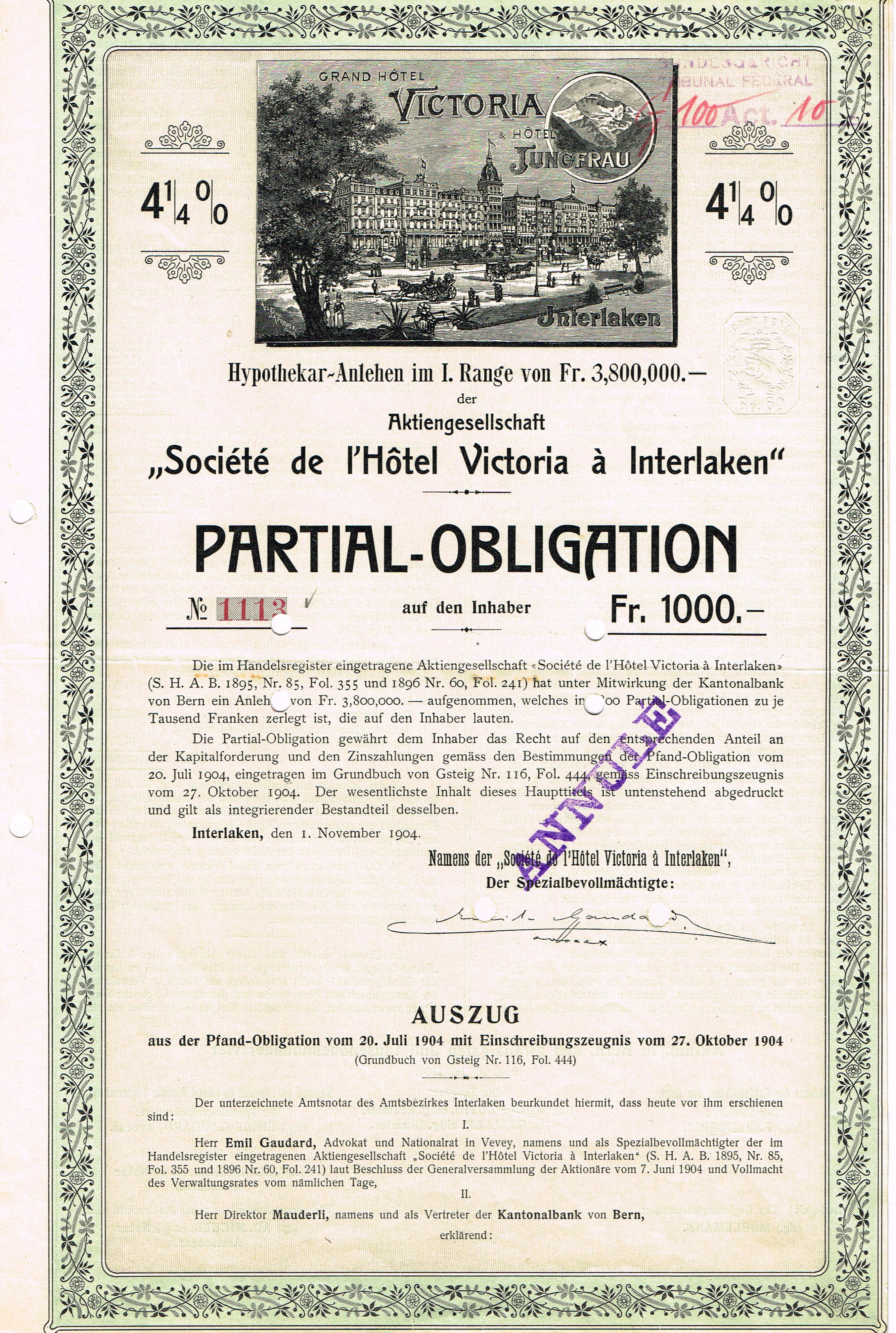 Bond of the Société de l'Hôtel Victoria à Interlaken, issued 1. November 1904